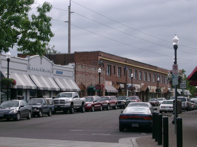 A section of old town Beaverton along Broadway.